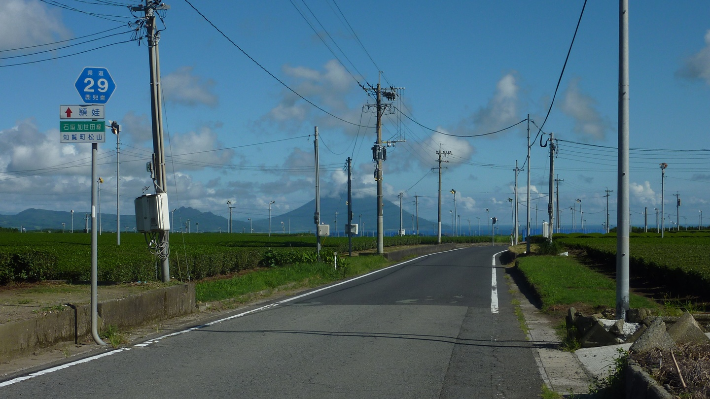 Kagoshima Prefectural Road No.29:Ishigaki-Kaseda Line (Chiran, Minamikyushu City, Kagoshima, Japan)